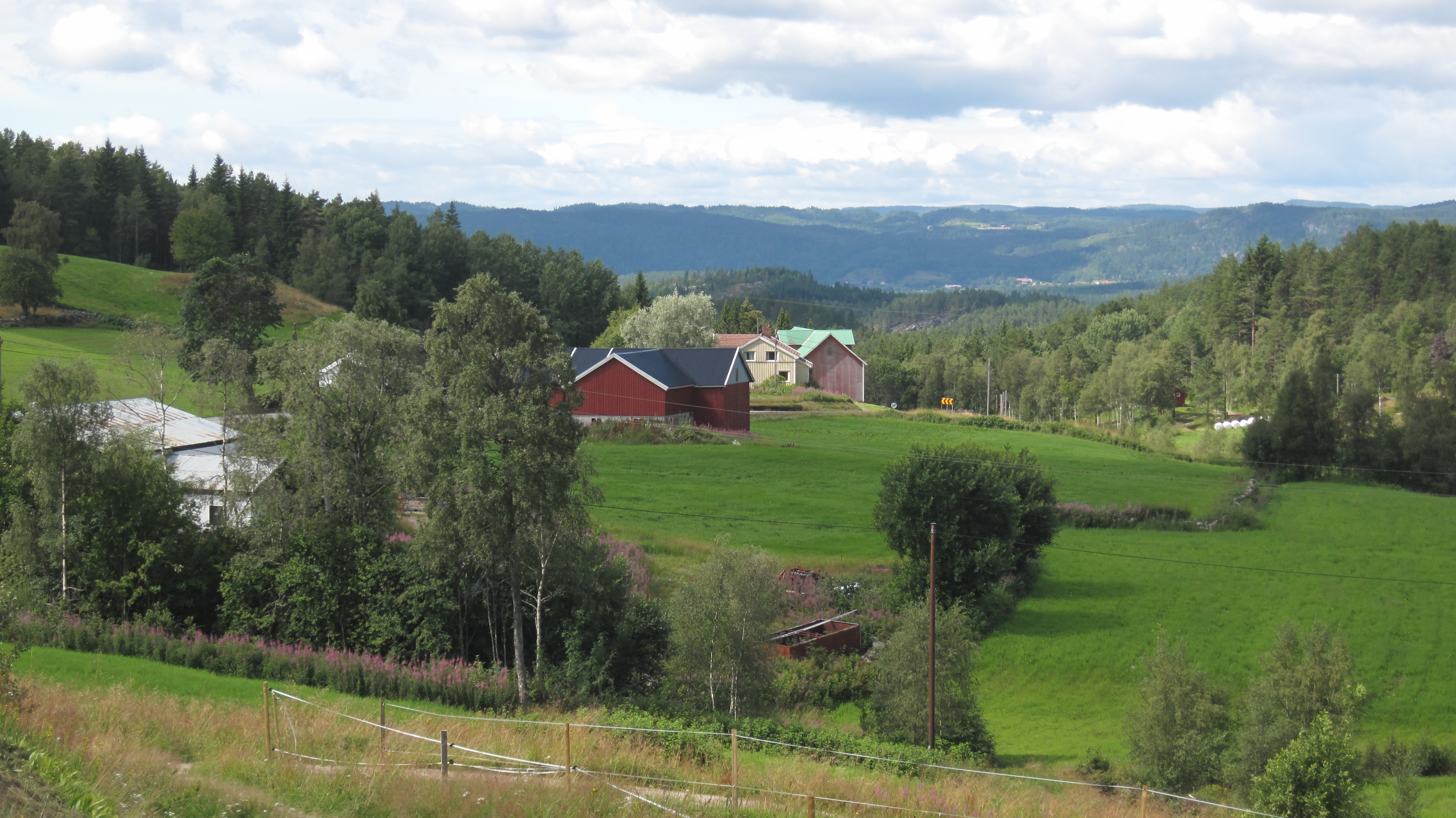 Photo of Koland, looking west toward Bjelland from eastern boundary of the village.